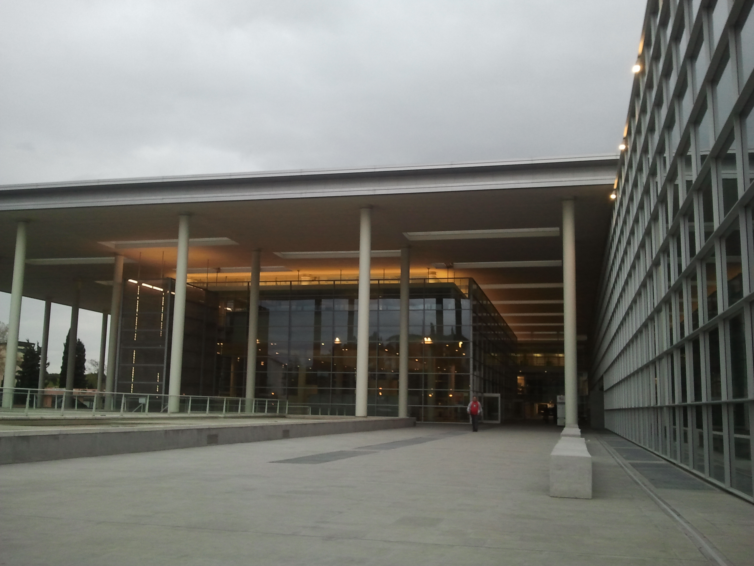 Careggi Hospital - Florence Italy